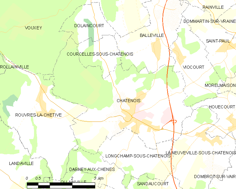 Map of French municipality Châtenois